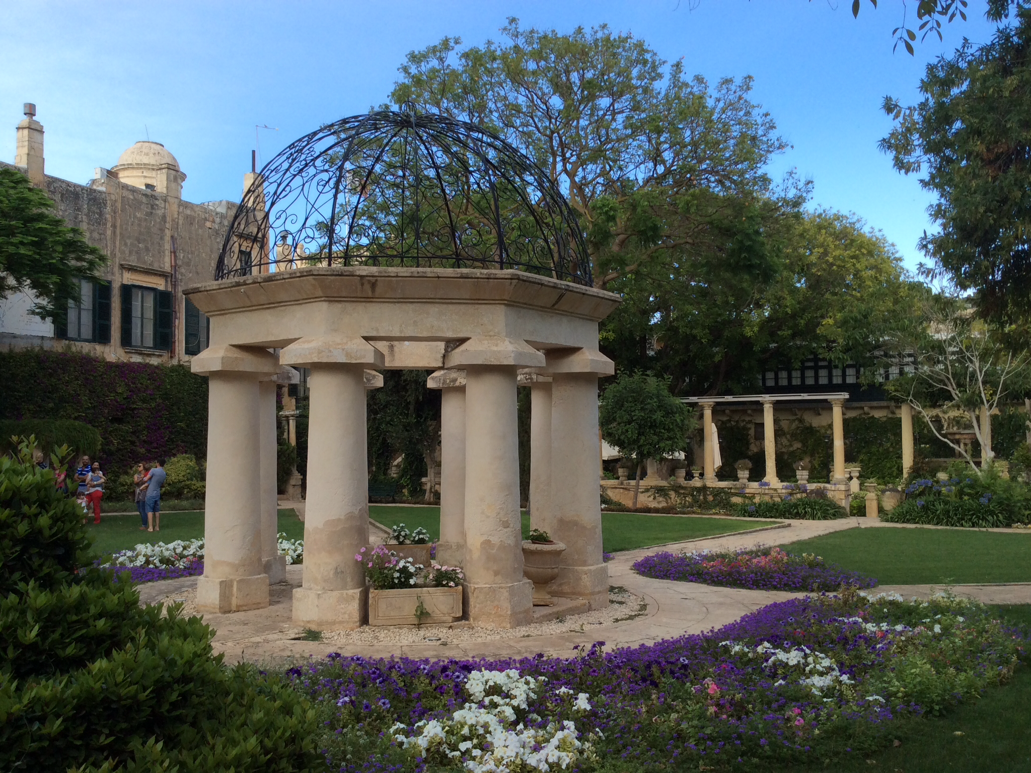 San Antonio Palace and Gardens This media is about Maltese cultural property with inventory number 01152.